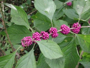 Beauty Berry Image taken by me, released under GFDL Pollinator 04:20, 11 Feb 2004 (UTC)